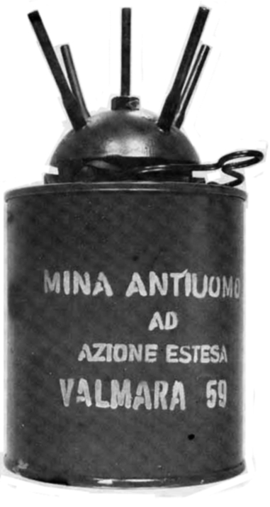 A Valmara 59 bounding anti-personnel mine - from the ORDATA database.